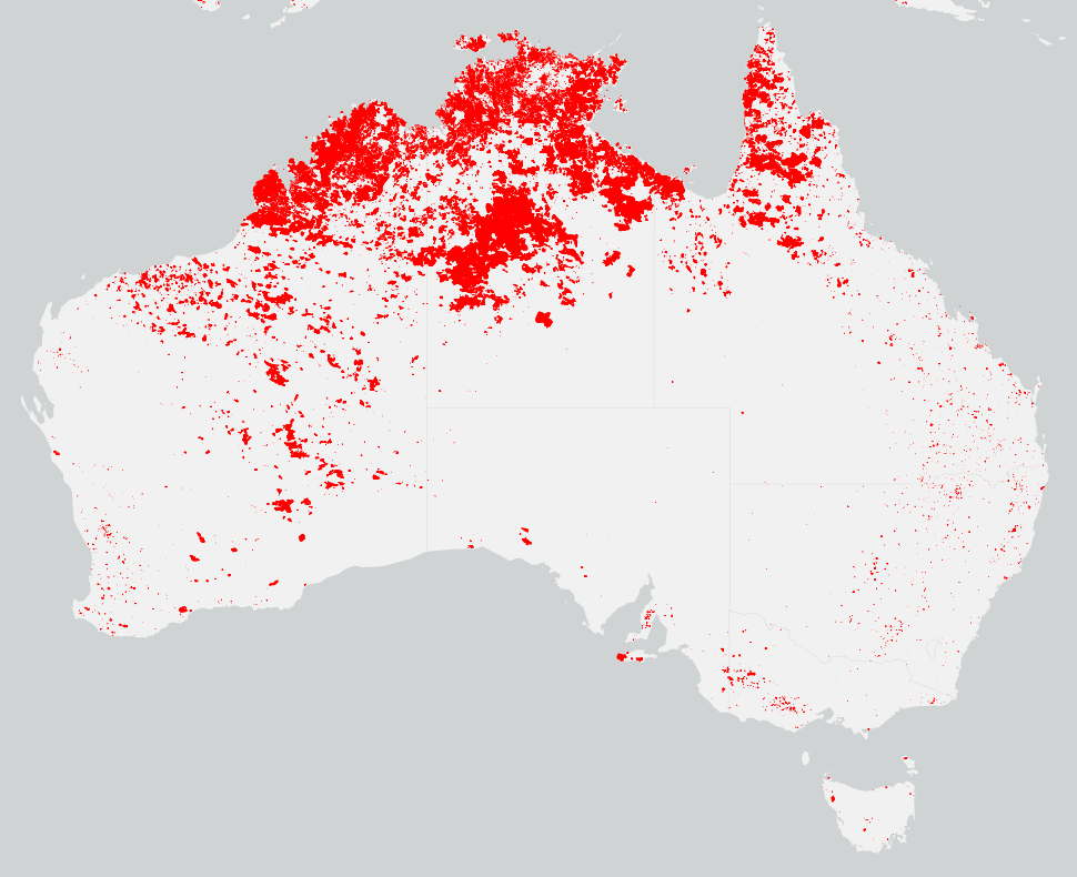 Burned areas shown in red detected by NASA's MODIS imaging sensors onboard Terra & Aqua satellites from June 2007 to May 2008. We acknowledge the use of data and imagery from LANCE FIRMS operated by NASA's Earth Science Data and Information System (ESDIS) with funding provided by NASA Headquarters.